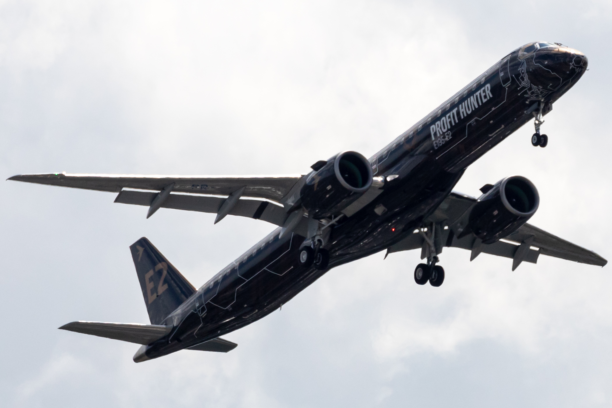 Embraer E195-E2 at Paris Air Show 2019